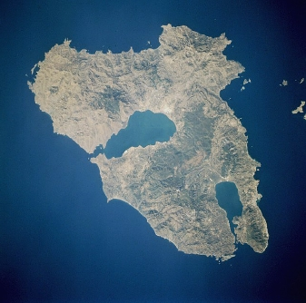 Lesbos Island, Greece - September/October 1995